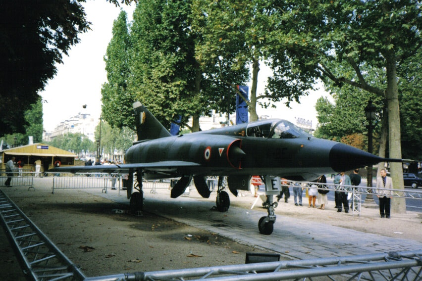 Former french fighter Dassault Mirage III seen here for Aero Exhibition Champs d'Aviation in september 1998.